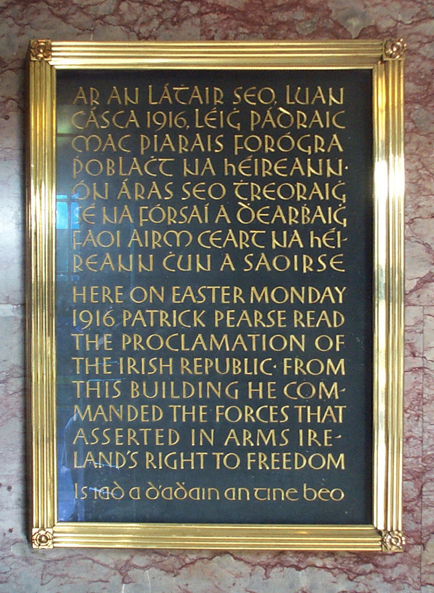 A plaque commemorating the Easter Rising at the General Post Office, Dublin Carved by Tom Little]